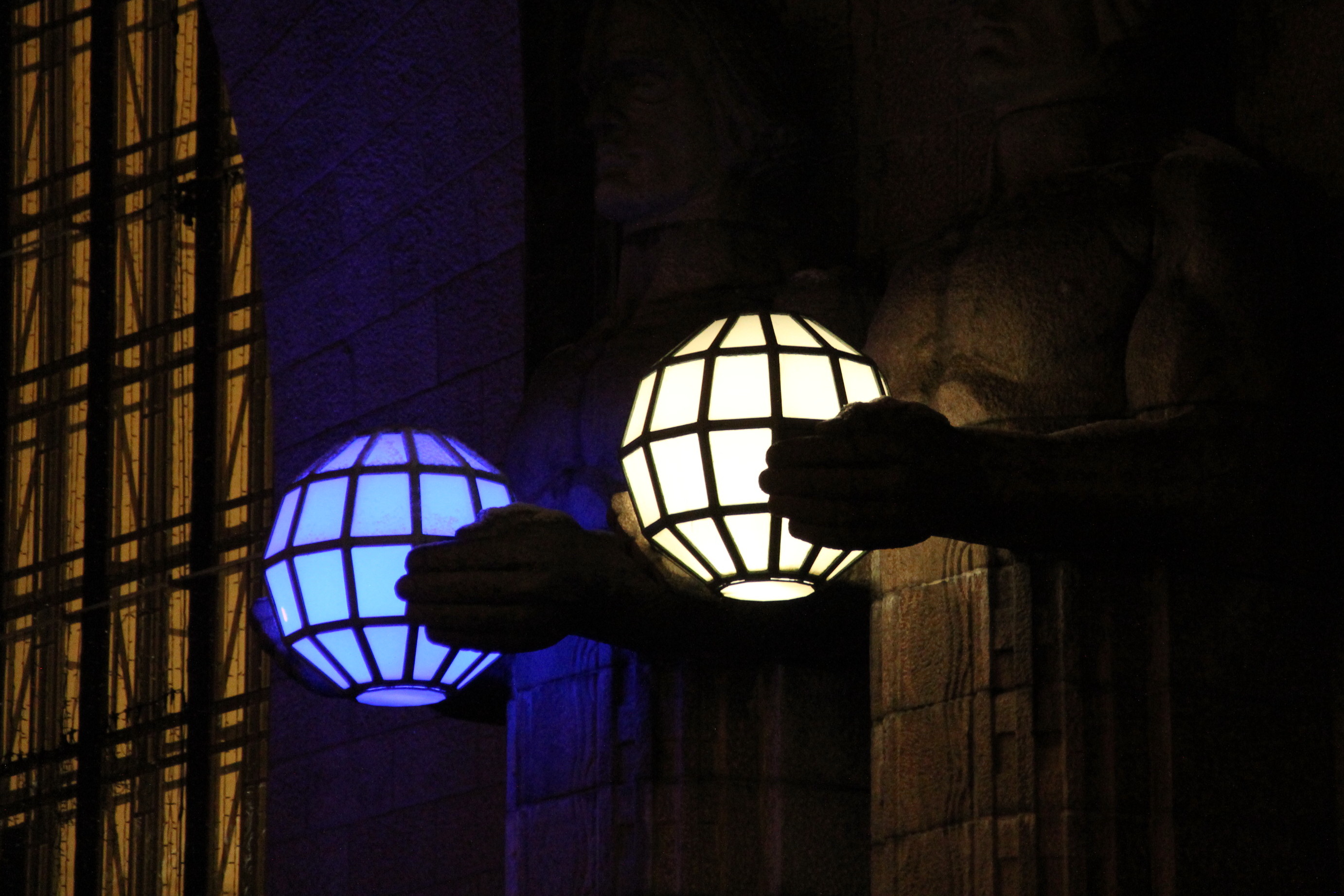 Lyhdynkantajat, statues by Emil Wikström, unveiled in 1914 at Helsinki main railway station, Finland, are carrying blue and white lanterns to celebrate centenary of Finland’s independence in 2017.